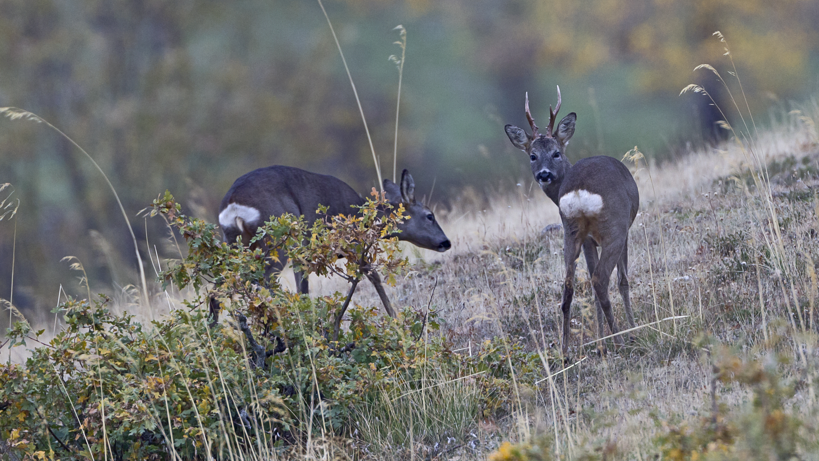 Capreolus capreolus